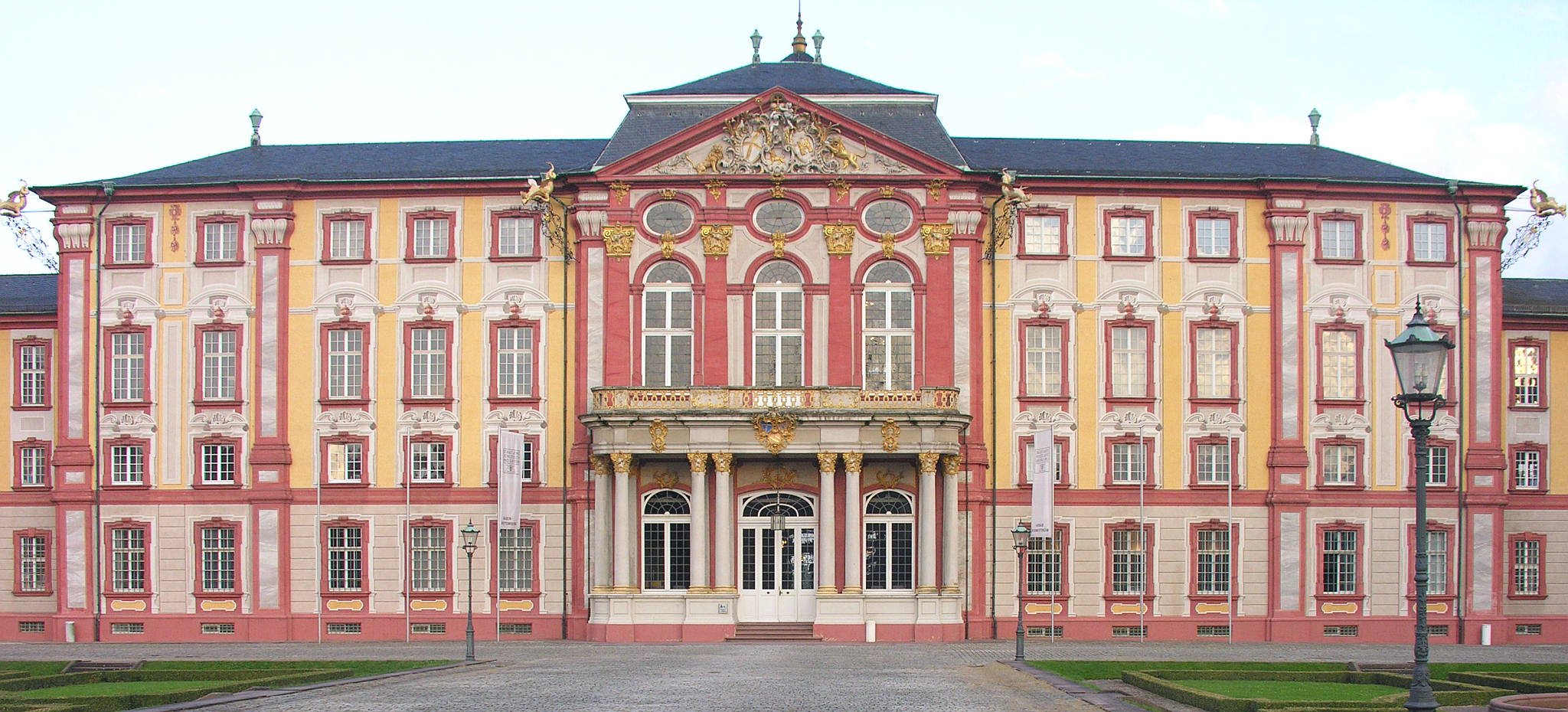 Edestä barokkitalosta Schloss Bruchsal. Piha päärakennuksesta. Tuhottiin sodassa vuonna 1945. Korjausrakentaminen vuoteen 1975 asti. Kuva Wolfgang Pehlemann DSCN8746